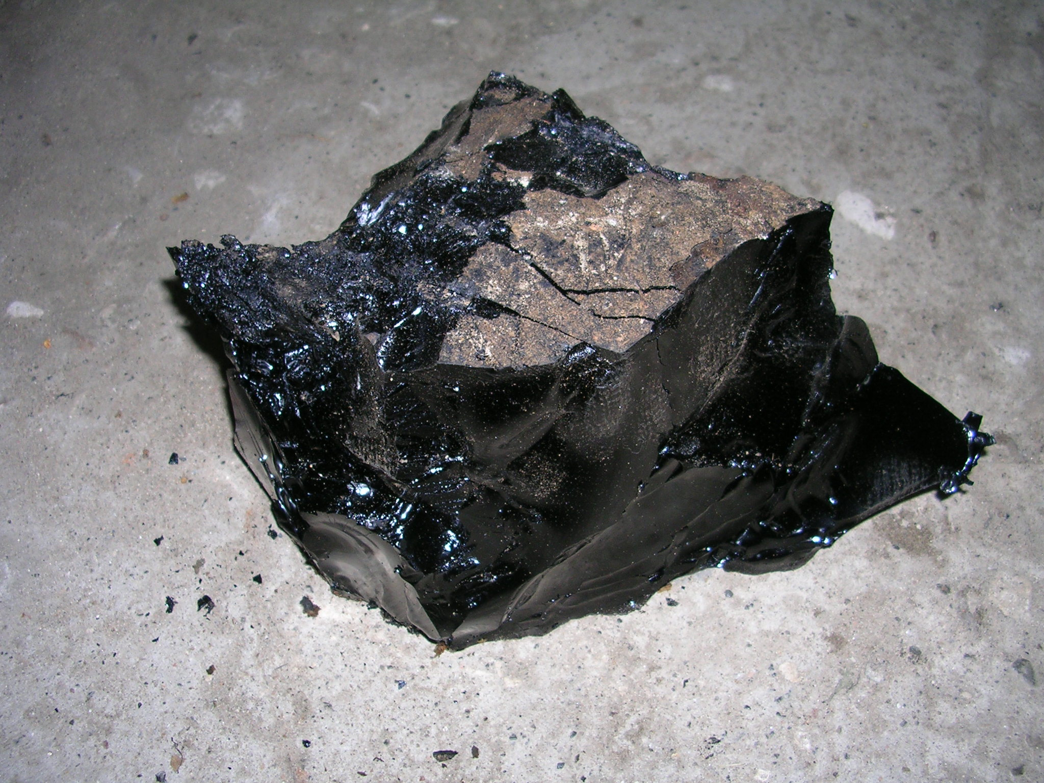 Cold refined bitumen